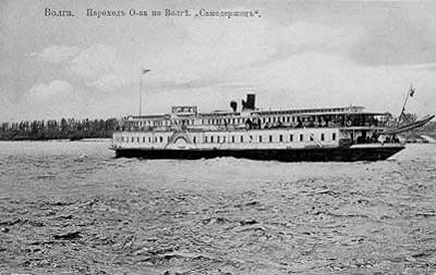 Steamsip "Samoderzhets" on the Volga river.